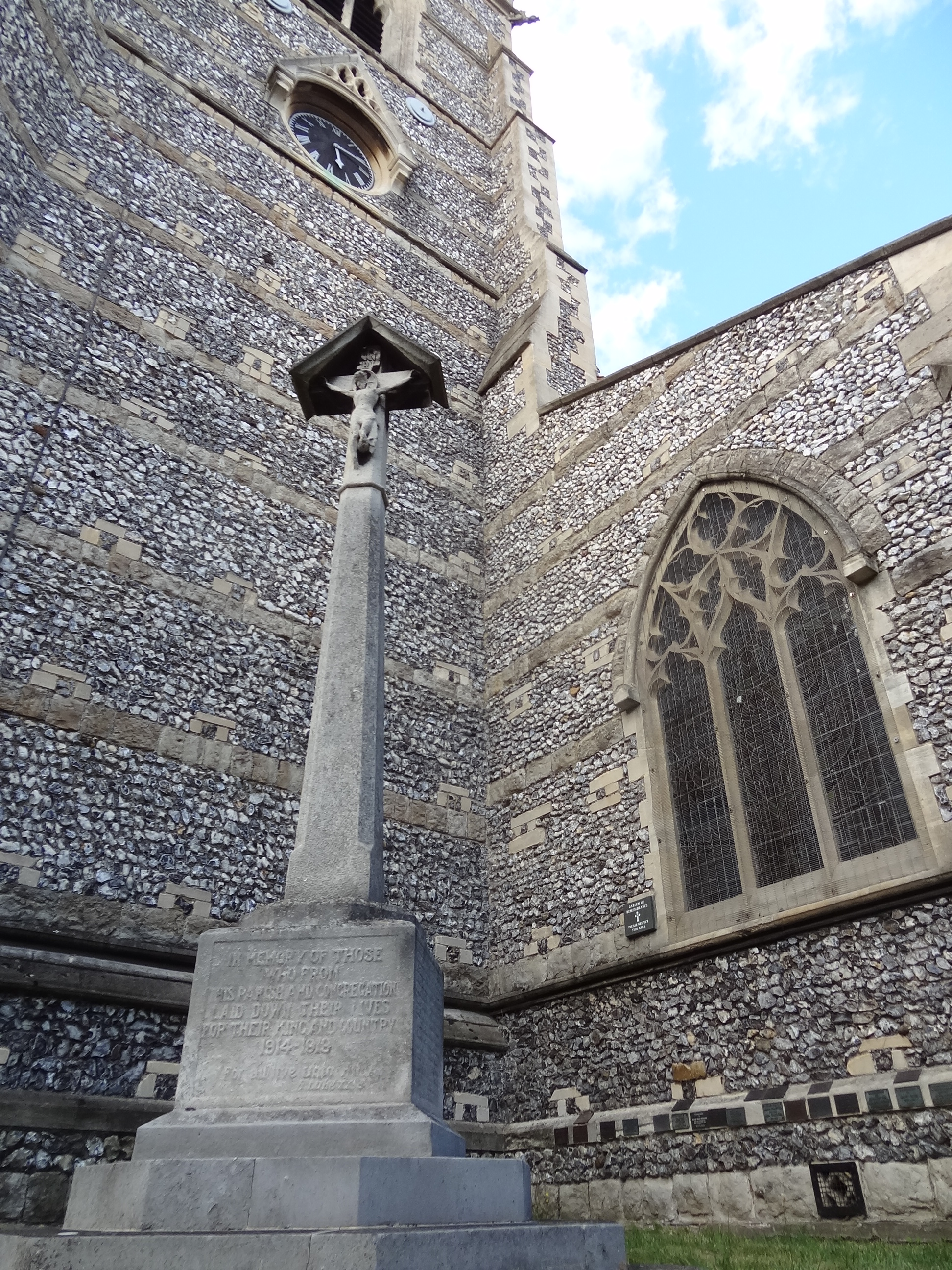 First World War Memorial at All Saints Church, Benhilton, Sutton.